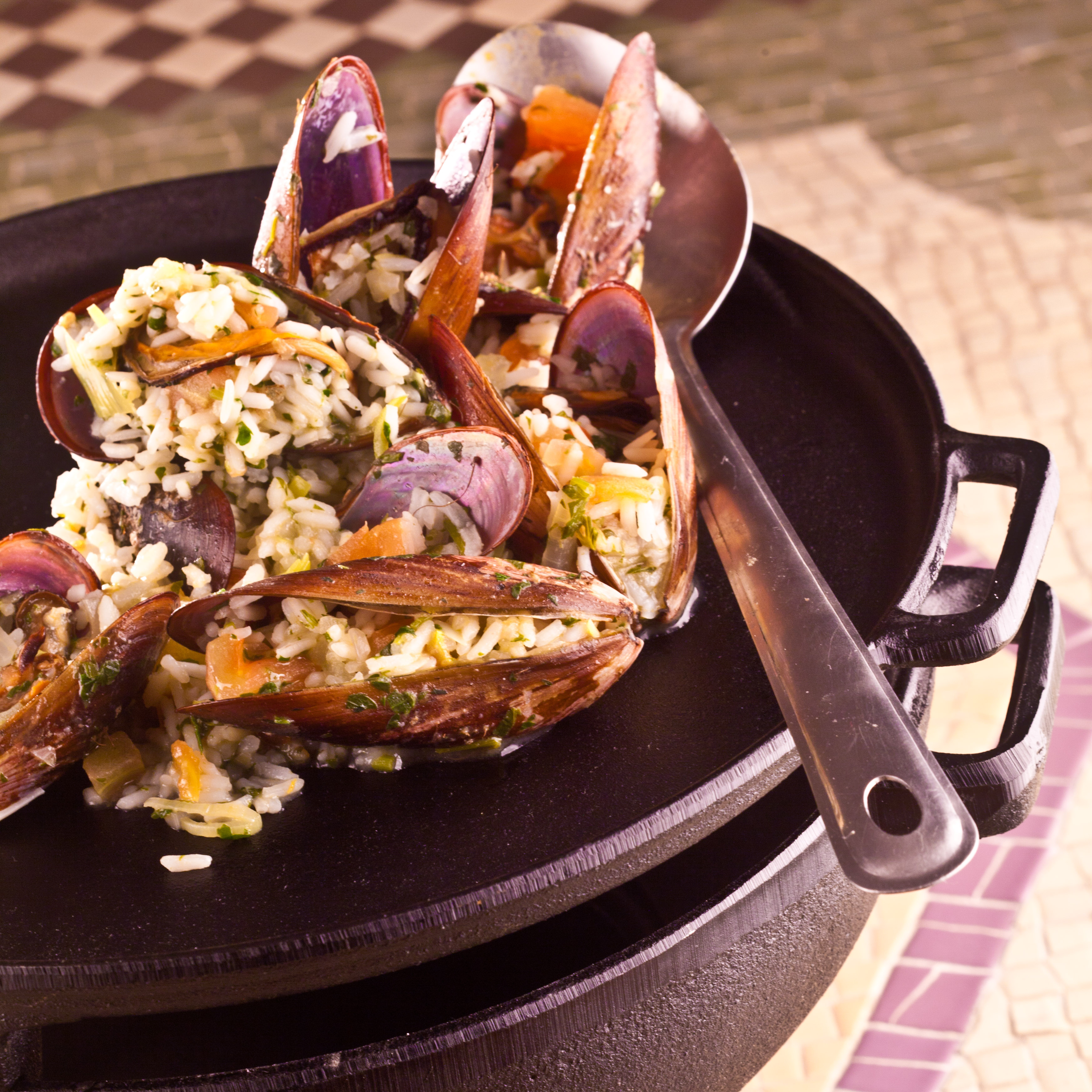 Culinária Caiçara